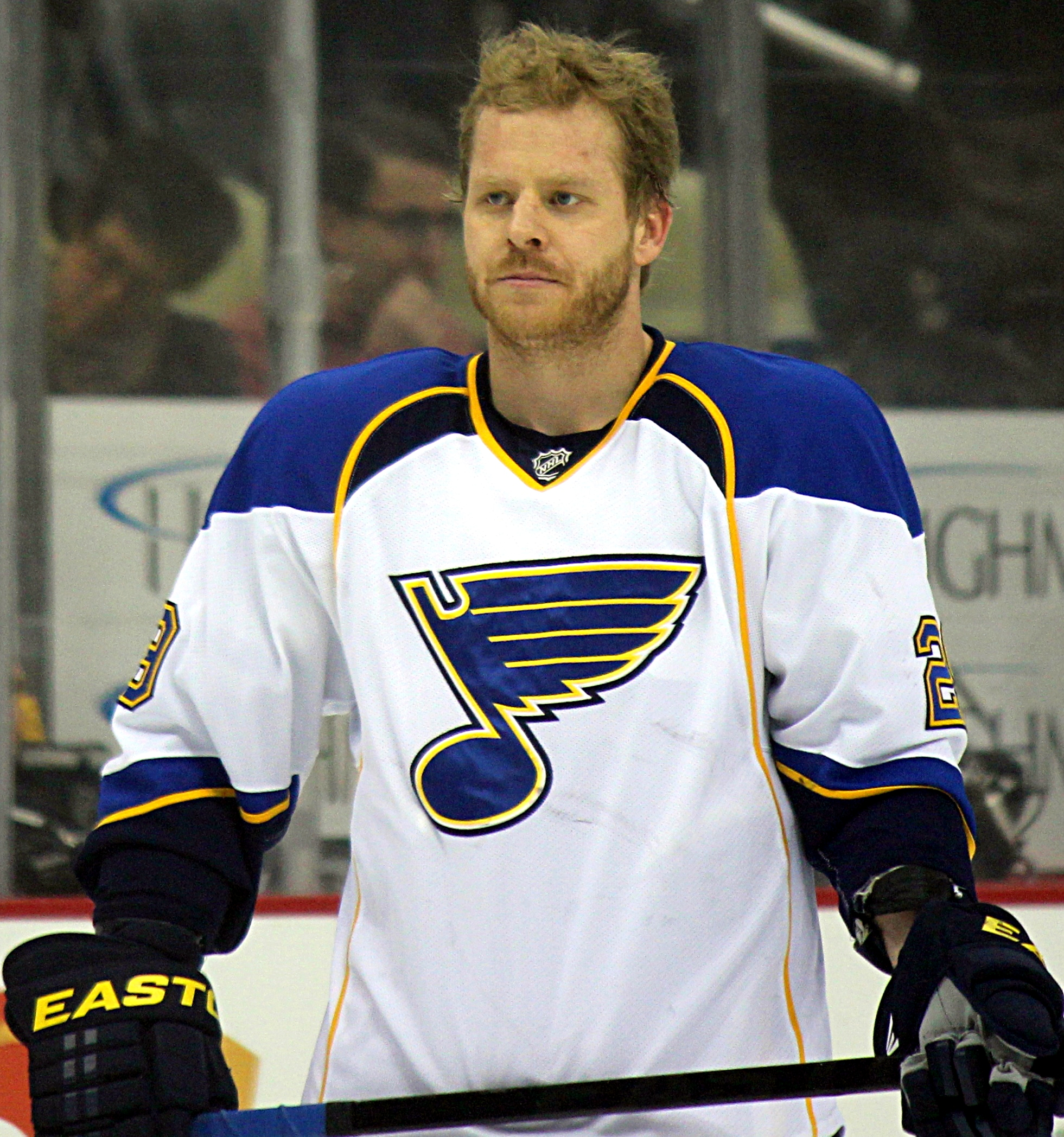 St. Louis Blues forward Steve Ott warms up prior to a game against the Pittsburgh Penguins, March 23, 2014, at Consol Energy Center in Pittsburgh, PA.